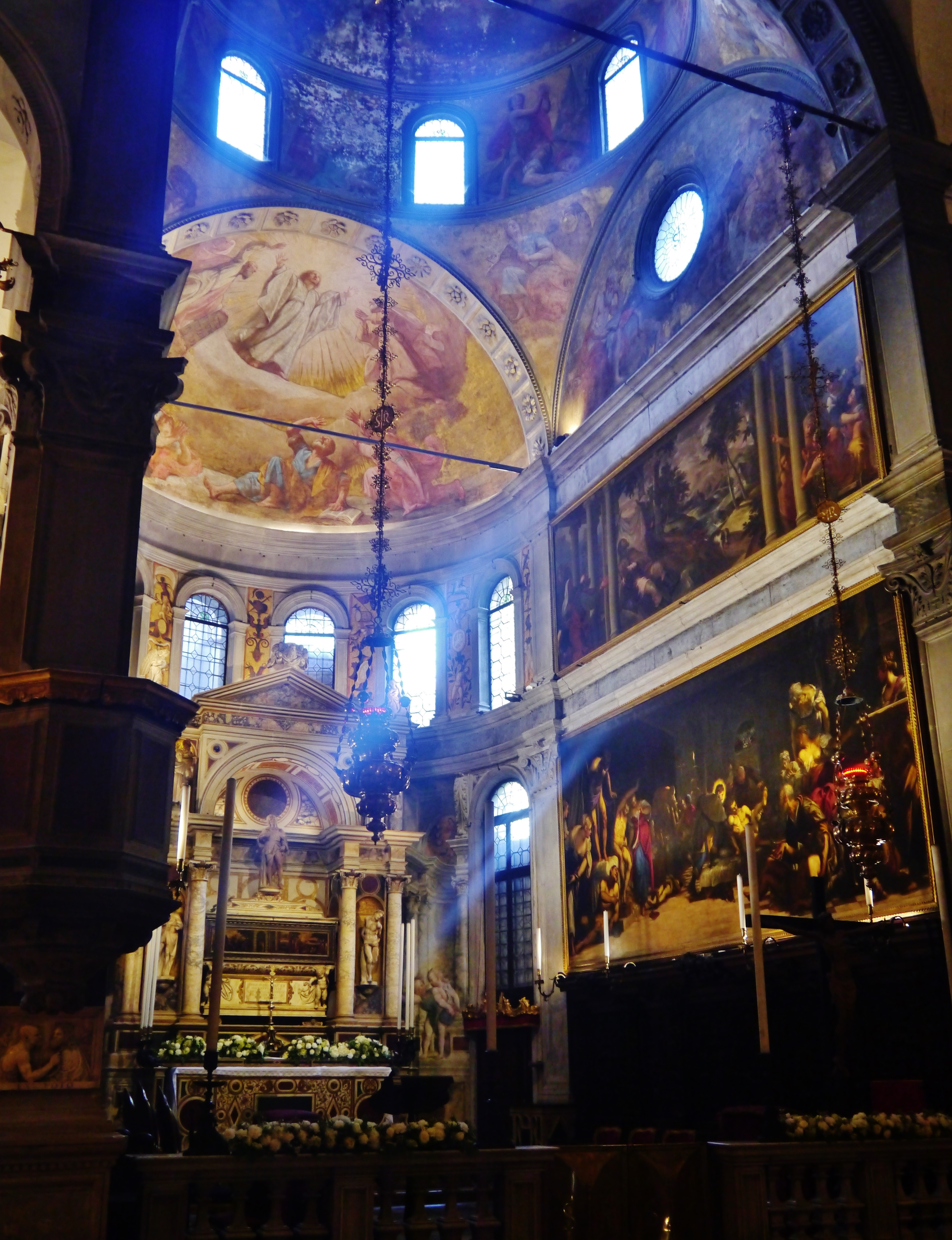 Choir of the Church of St. Roch, Venice, Metropolitan City of Venice, Region of Veneto, Italy